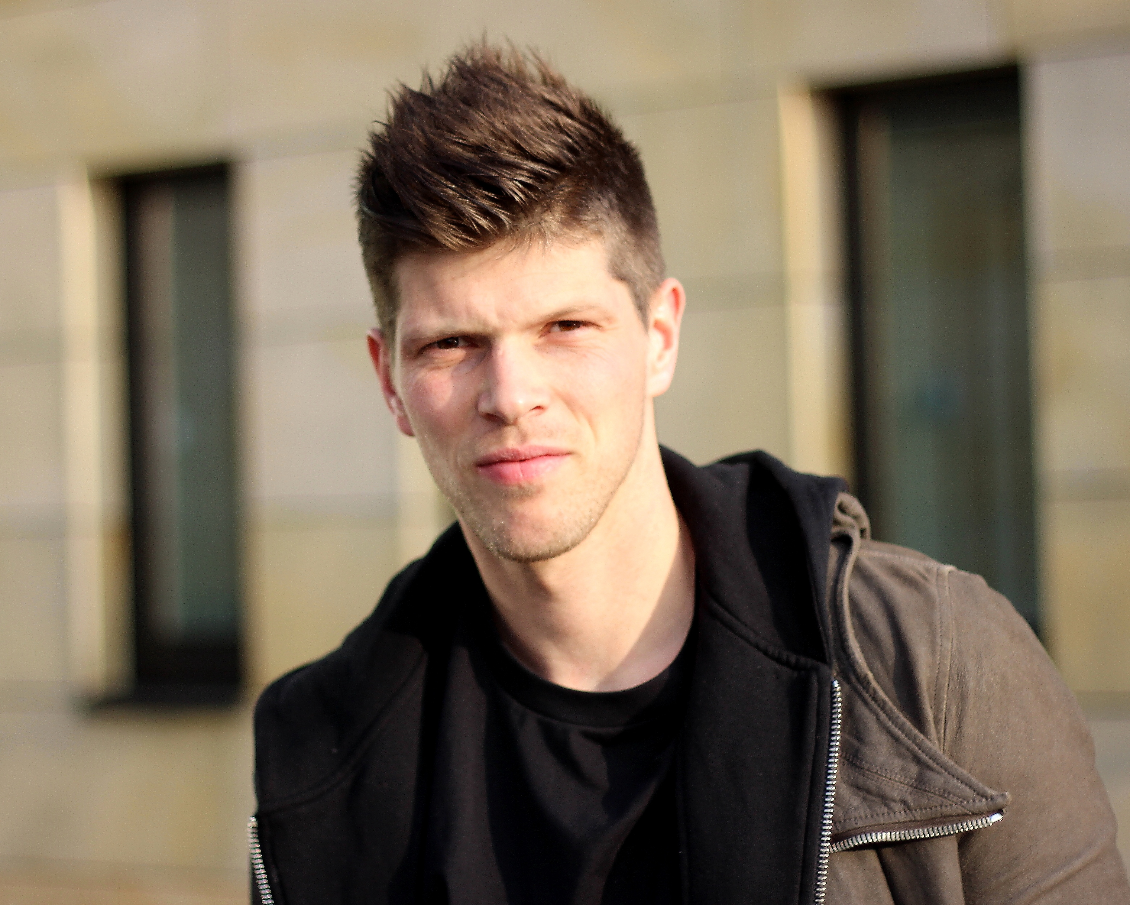 Dutch footballer Klaas-Jan Huntelaar in 2015.